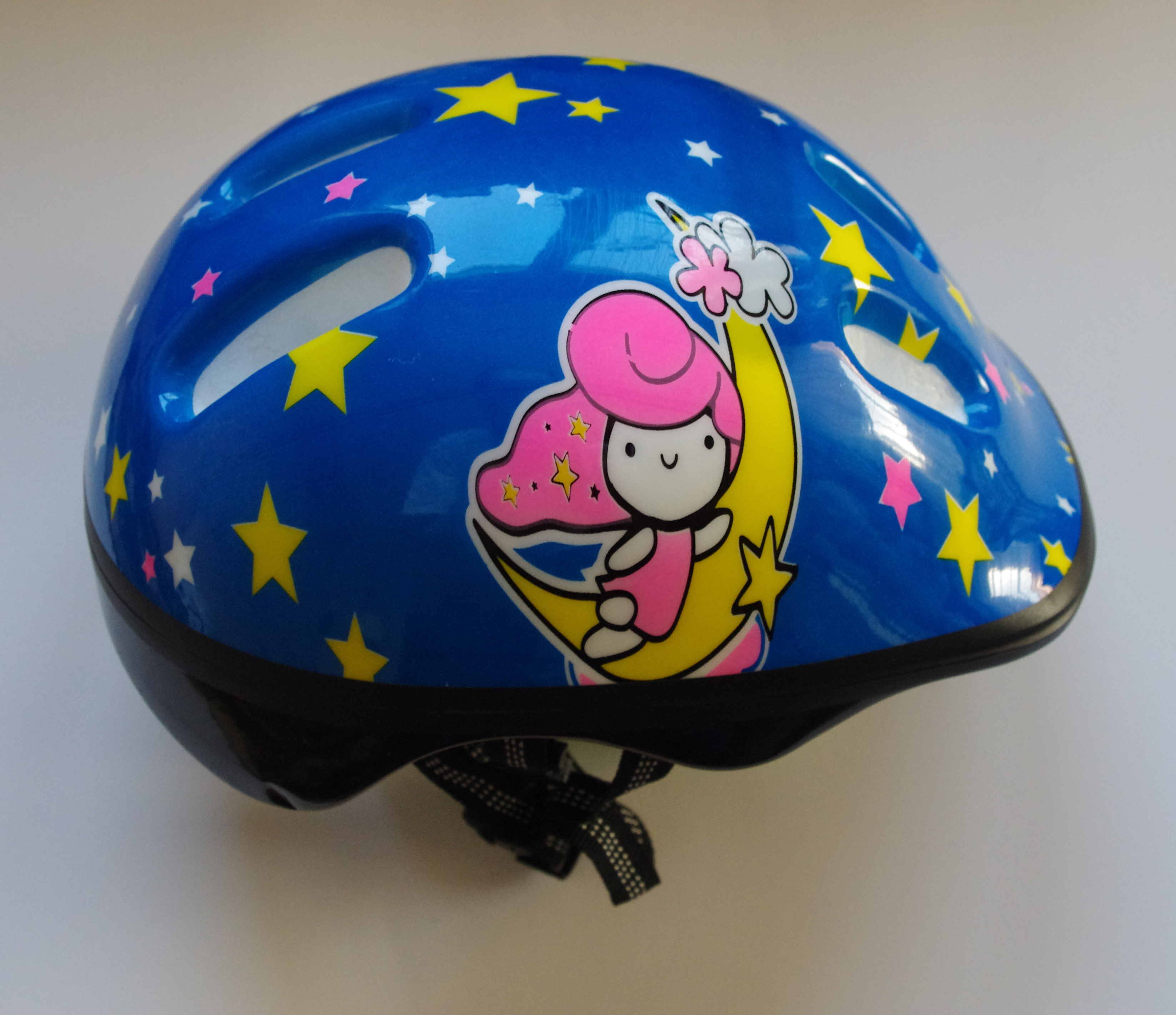 A children's bicycle helmet English | Polski | +/−